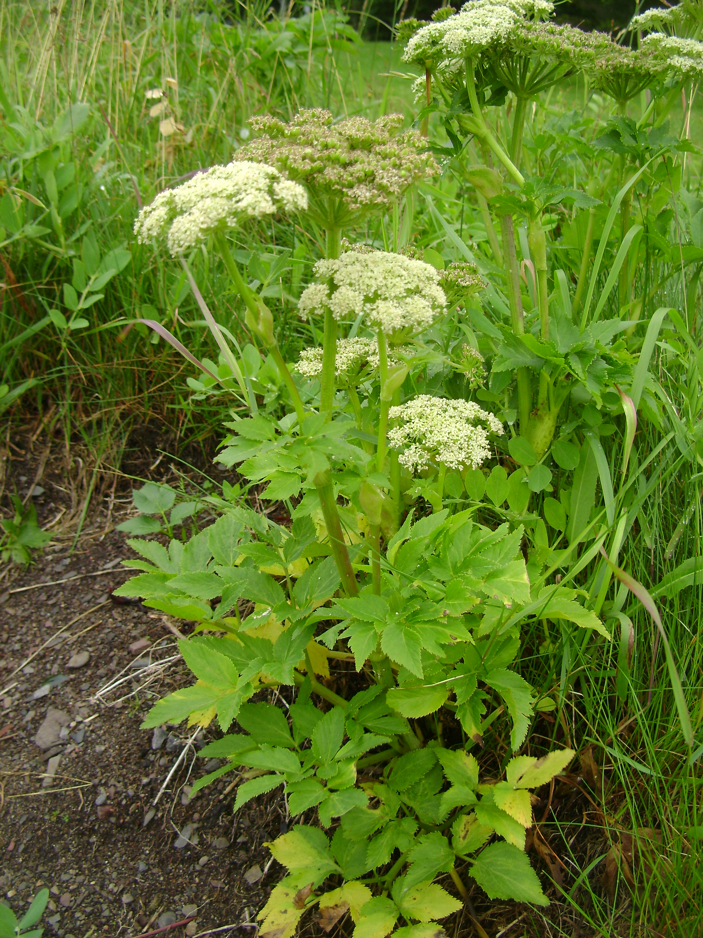 Seacost angelica umbel (Angelica lucidula L., syn. Coelopleurum lucidum (L.) Fern.), growing on the bank of the Saint-Lawrence River, in the Parc de l'Ancien-Quai, in Saint-André-de-Kamouraska , province of Québec.